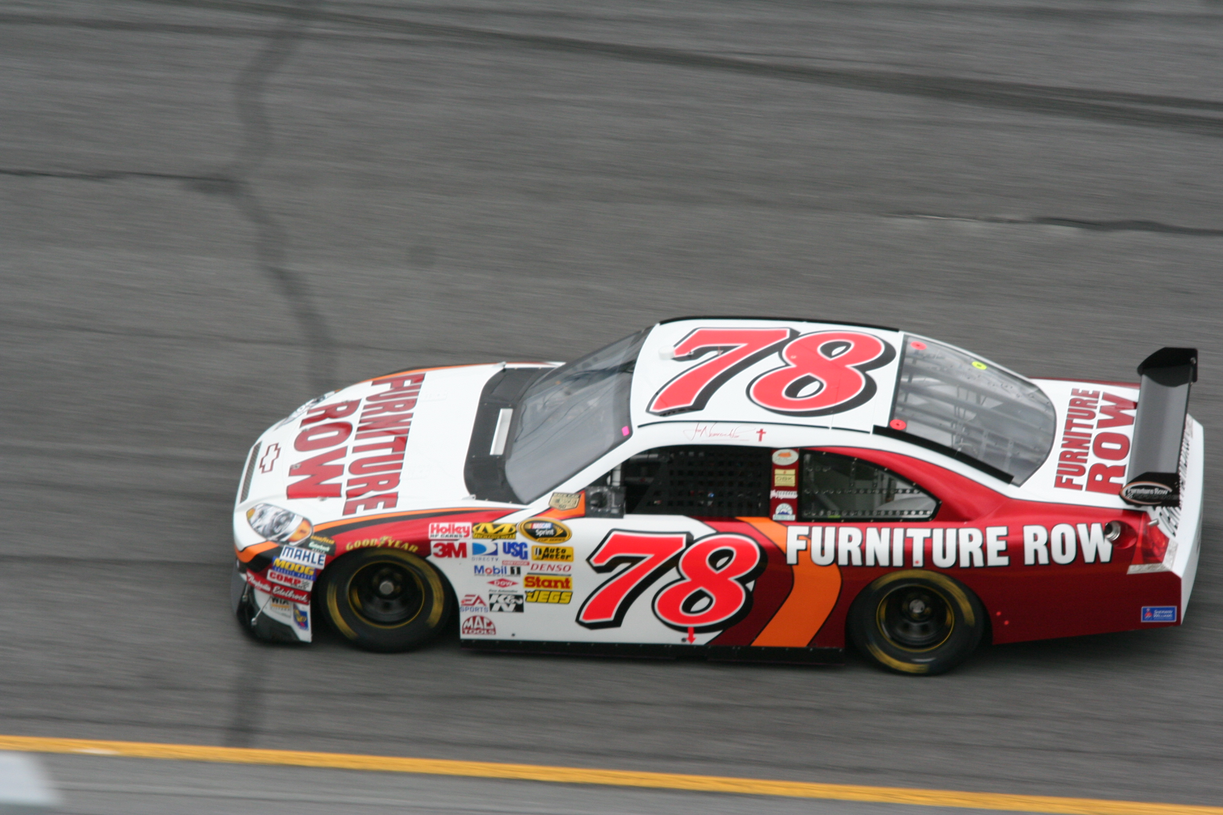 Shot by The Daredevil at Daytona during Speedweeks 2008Joe Nemechek Furniture Row Chevy Impala